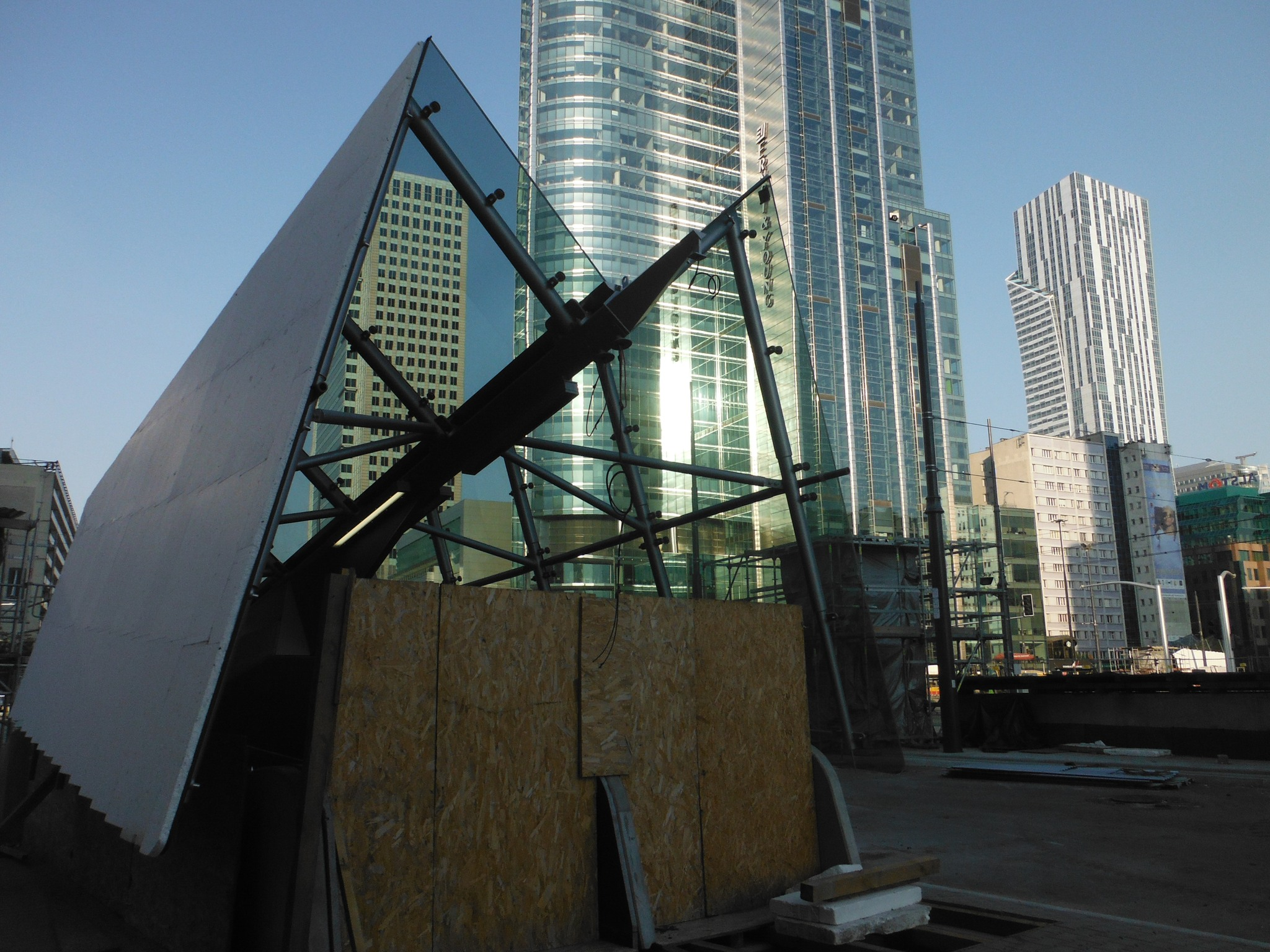 Rondo ONZ metro station (under construction) in Warsaw (2nd of August 2014).